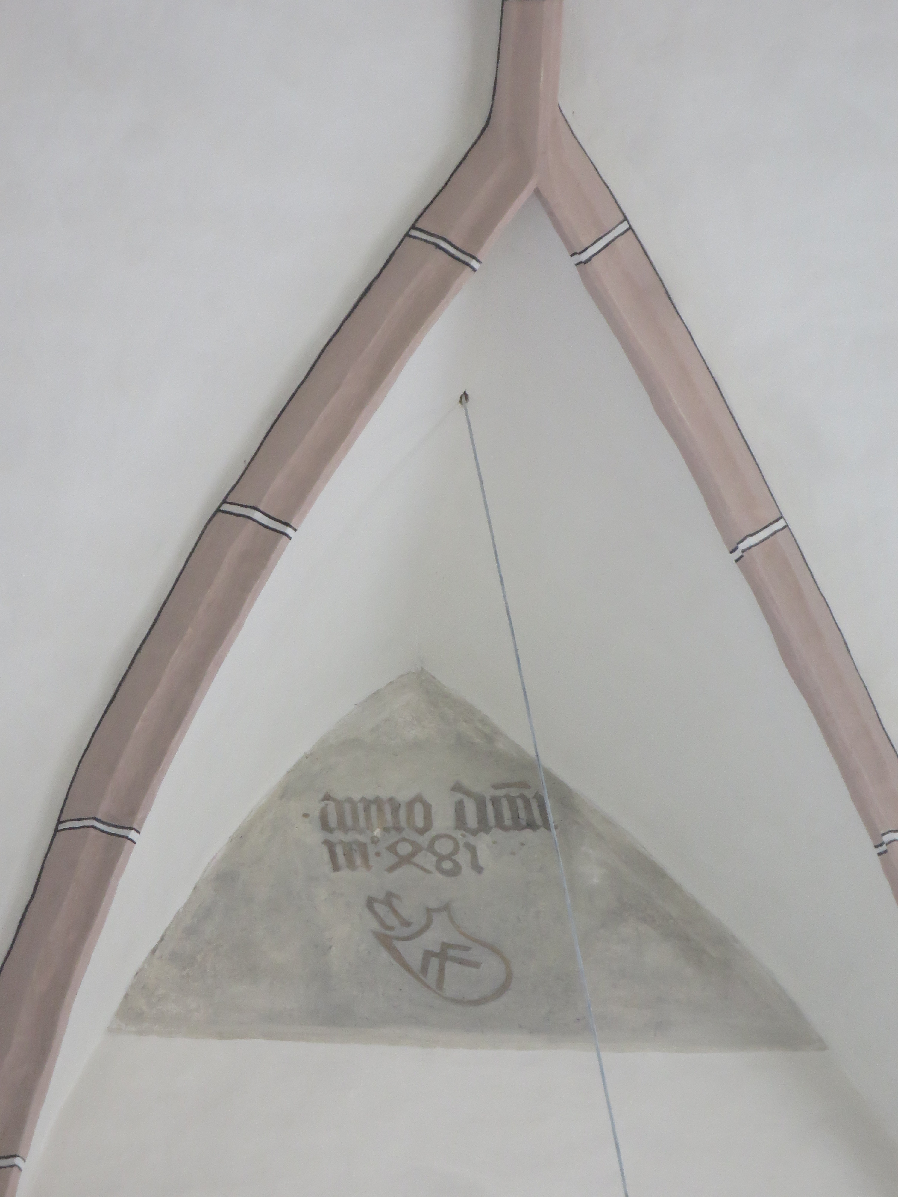 St. Michael, Eggenfelden-Kirchberg, Bavaria, Germany